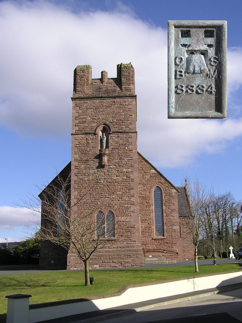 Sacred Heart RC Church, Plumbridge. There is a O.S. benchmark no.3334 inserted into the side of wall facing you, sometimes called a "crow's foot"